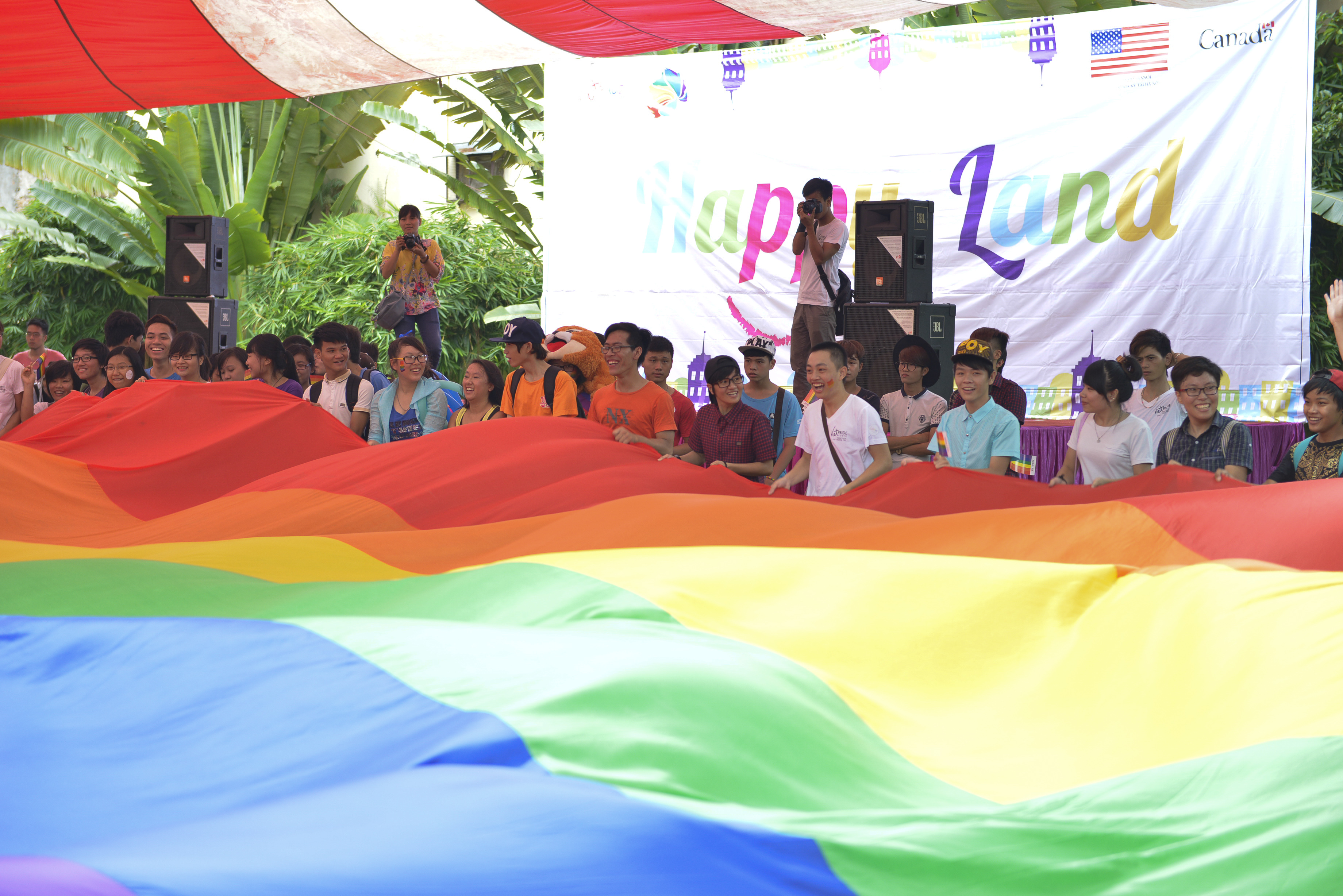 American Club, Hanoi. August 3, 2014. Photo: USAID/Vietnam